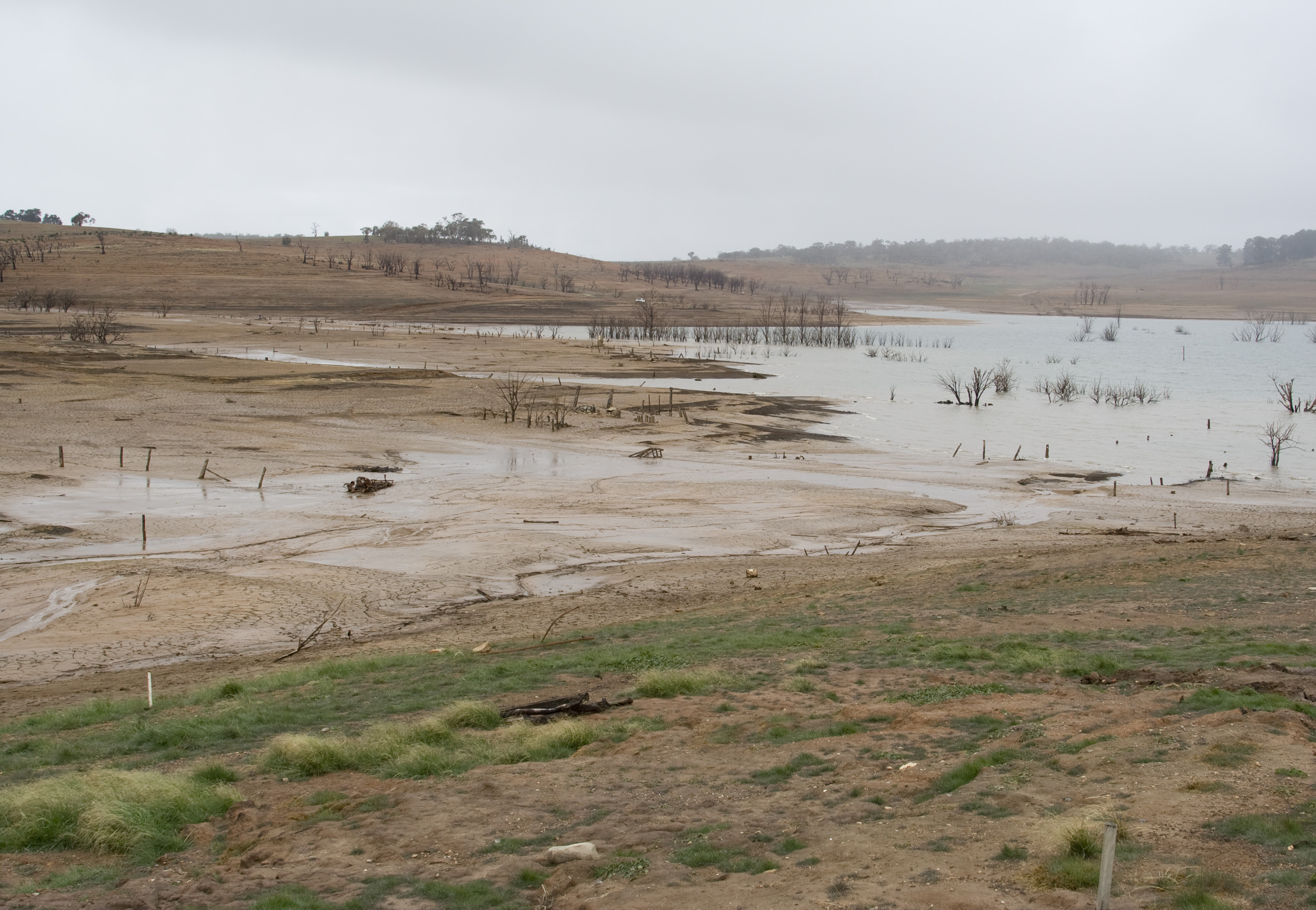 The remains of the former town of Adaminaby, on the banks of Lake Eucumbene. Photographed by Andrew Gerrand in June 2007.